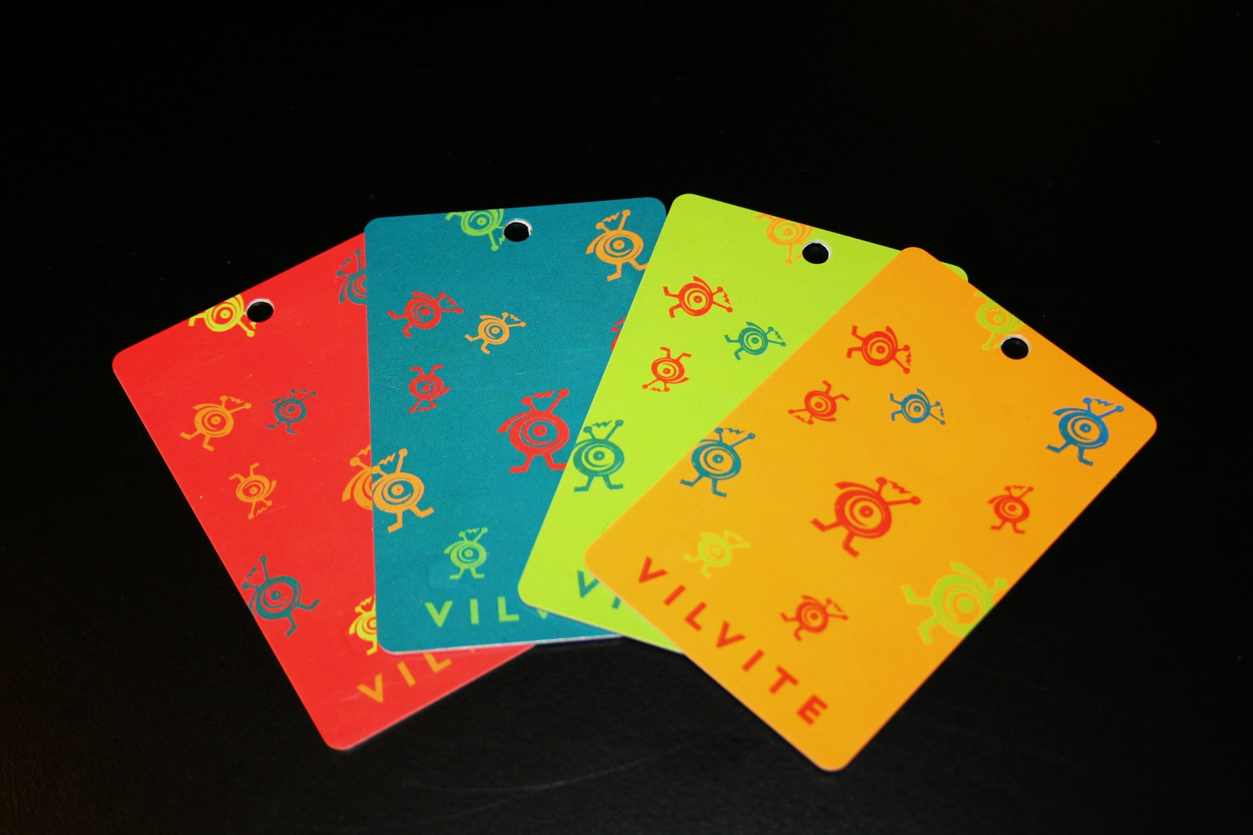 RFID (radio frequency identification) ticket to Bergen Science Centre. VIP, student, child and adult from left to right.